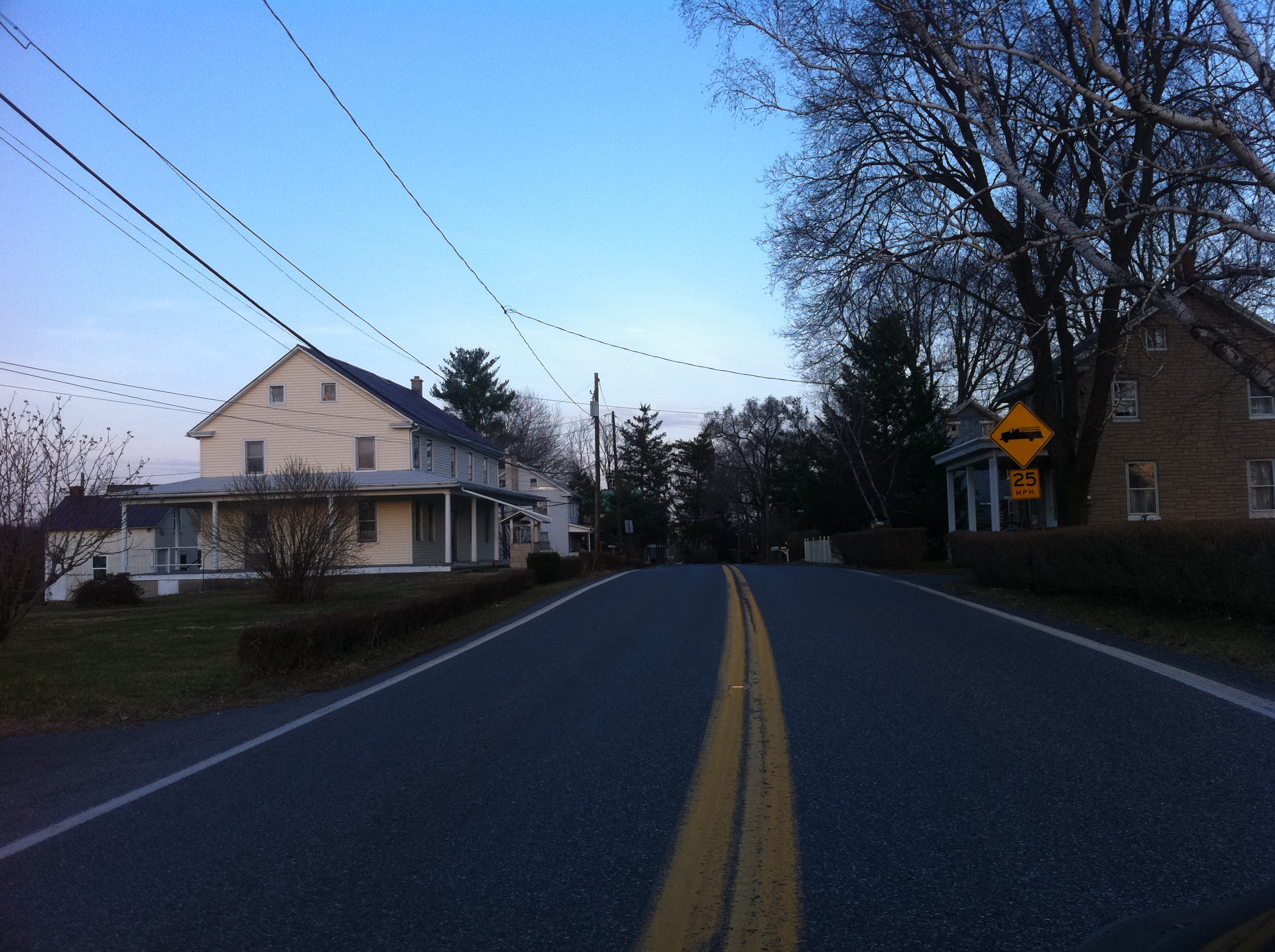 Western Approach to Hoernerstown PA